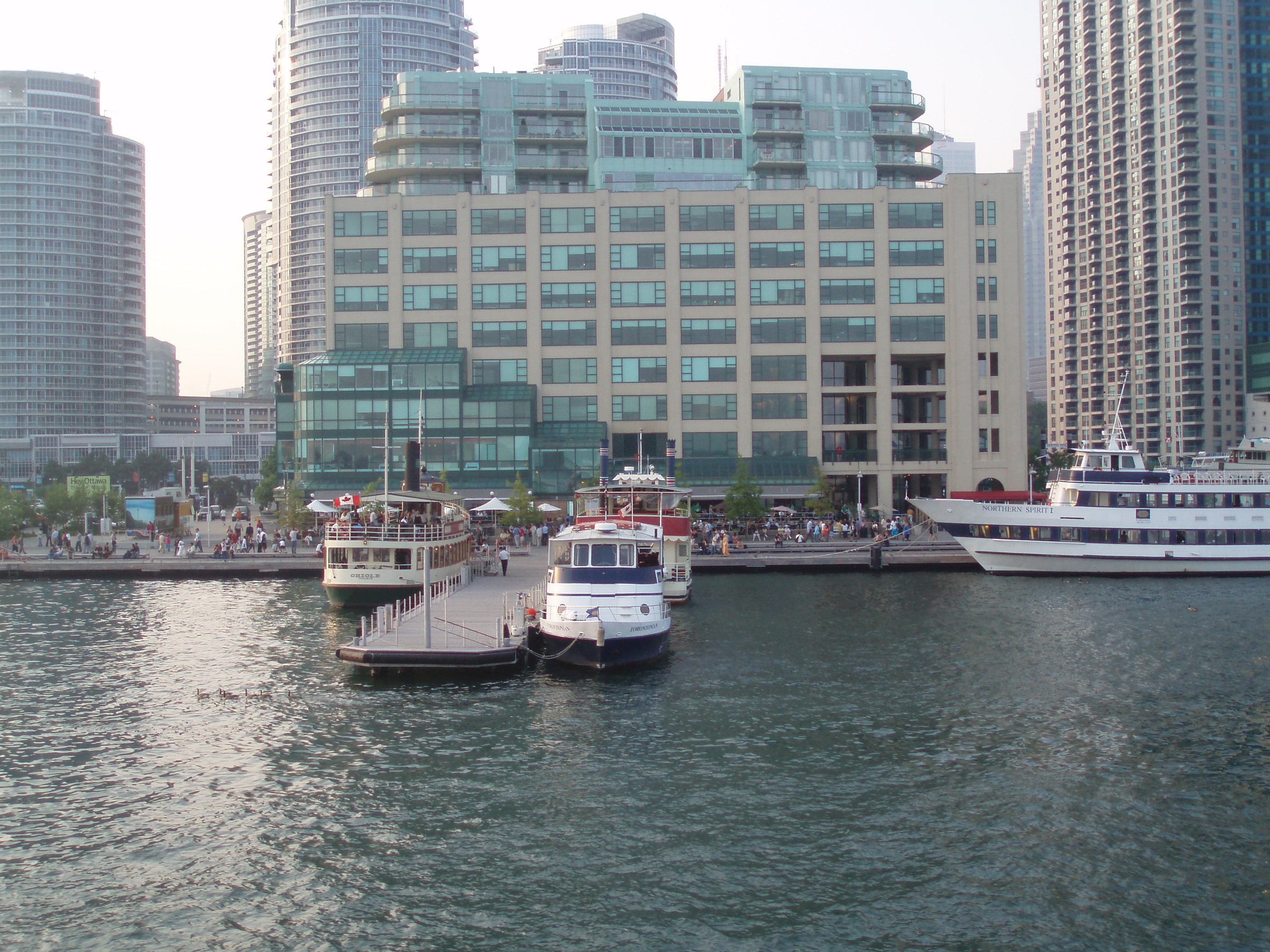 Toronto Waterfront